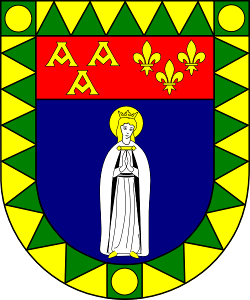 Coat of arms (shield only) of cardinal François Marty, bishop of Saint-Flour (1952 - 1959), archbishop of Reims (1960 - 1968), archbishop of Paris (1968 - 1981).